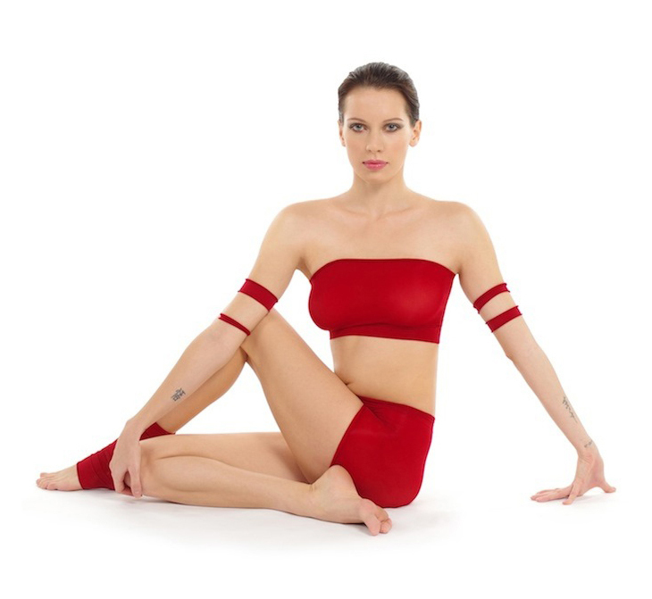 Ardha Matsyendrasana by Nina Mel, Yoga Teacher